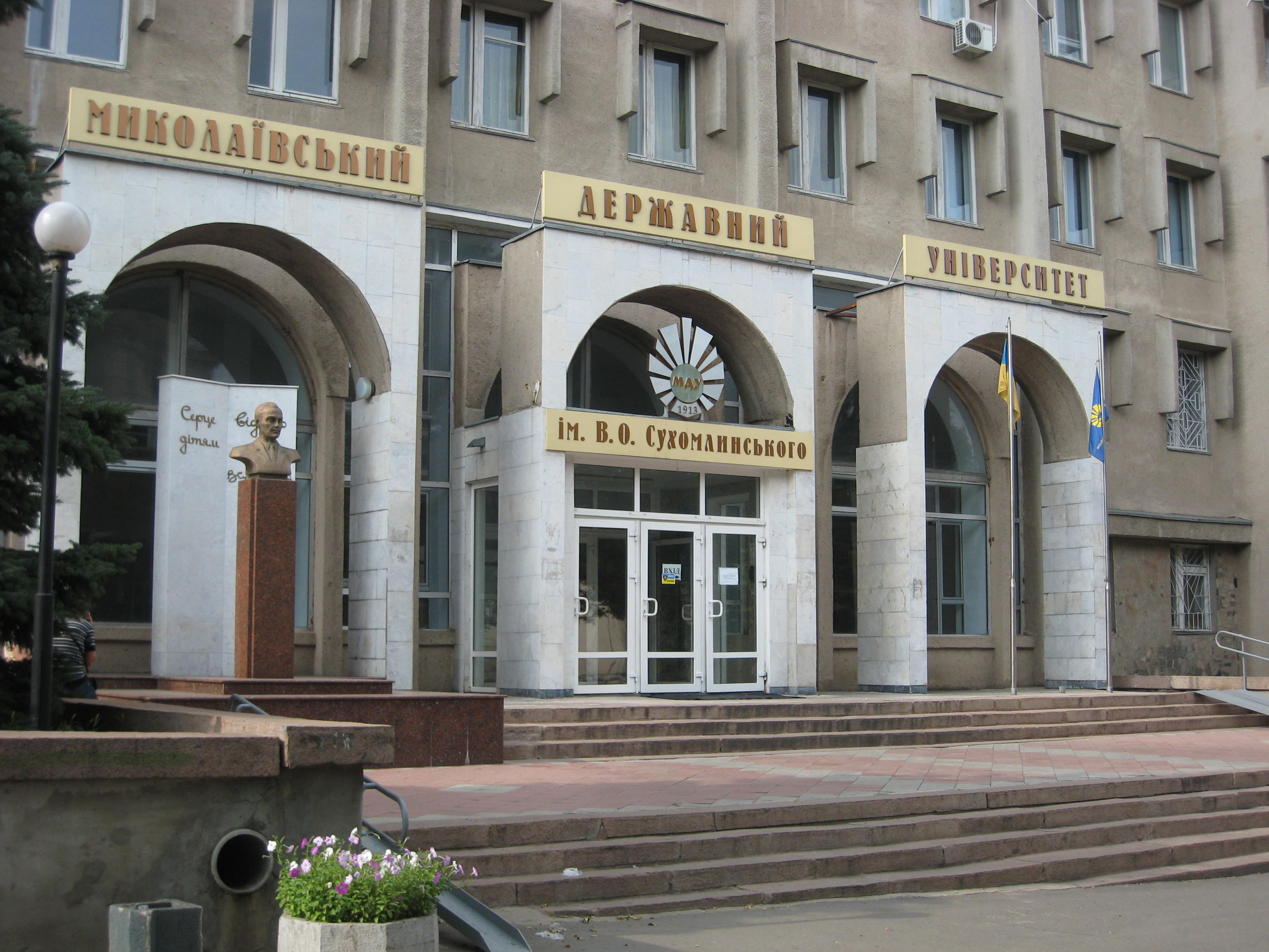 Mykolaiv State University in Mykolaiv, Ukraine.